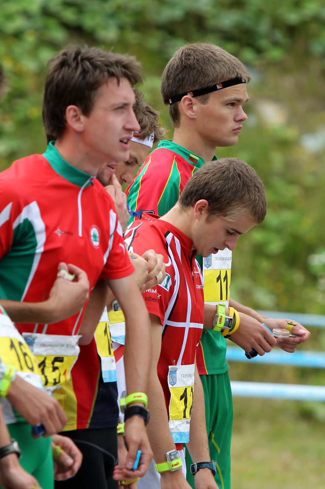 Men's relay start at World Orienteering Championships 2010 in Trondheim, Norway